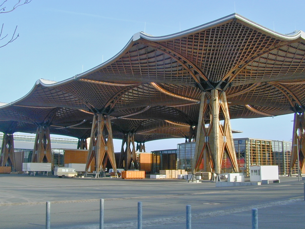 The world's largest self-supporting wooden roof stands at the Hanover fairground and was built for EXPO 2000